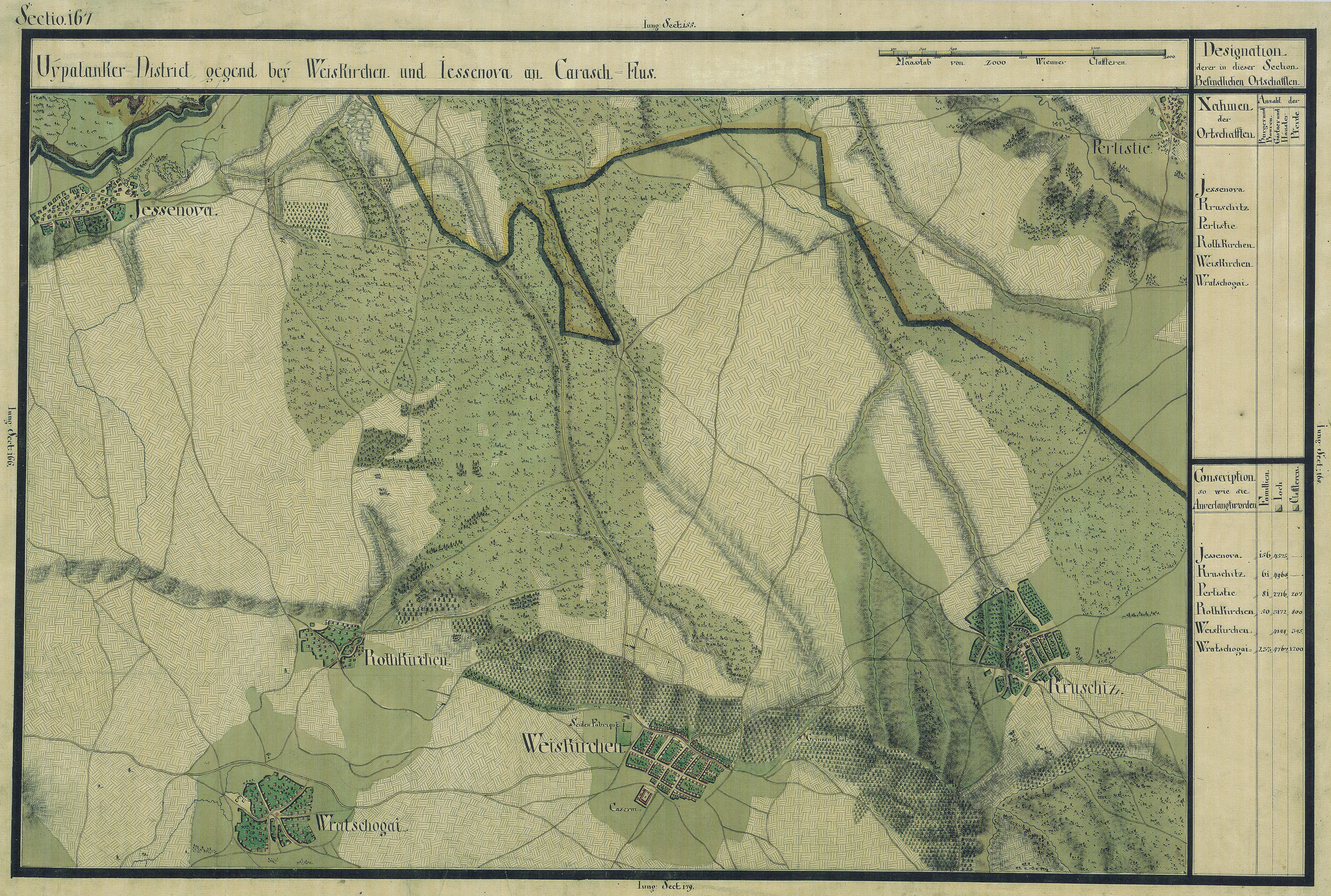 The Banat region in the cadastral maps: Josephinische Landesaufnahme, 1769-72. Josephinische Landaufnahme pg167